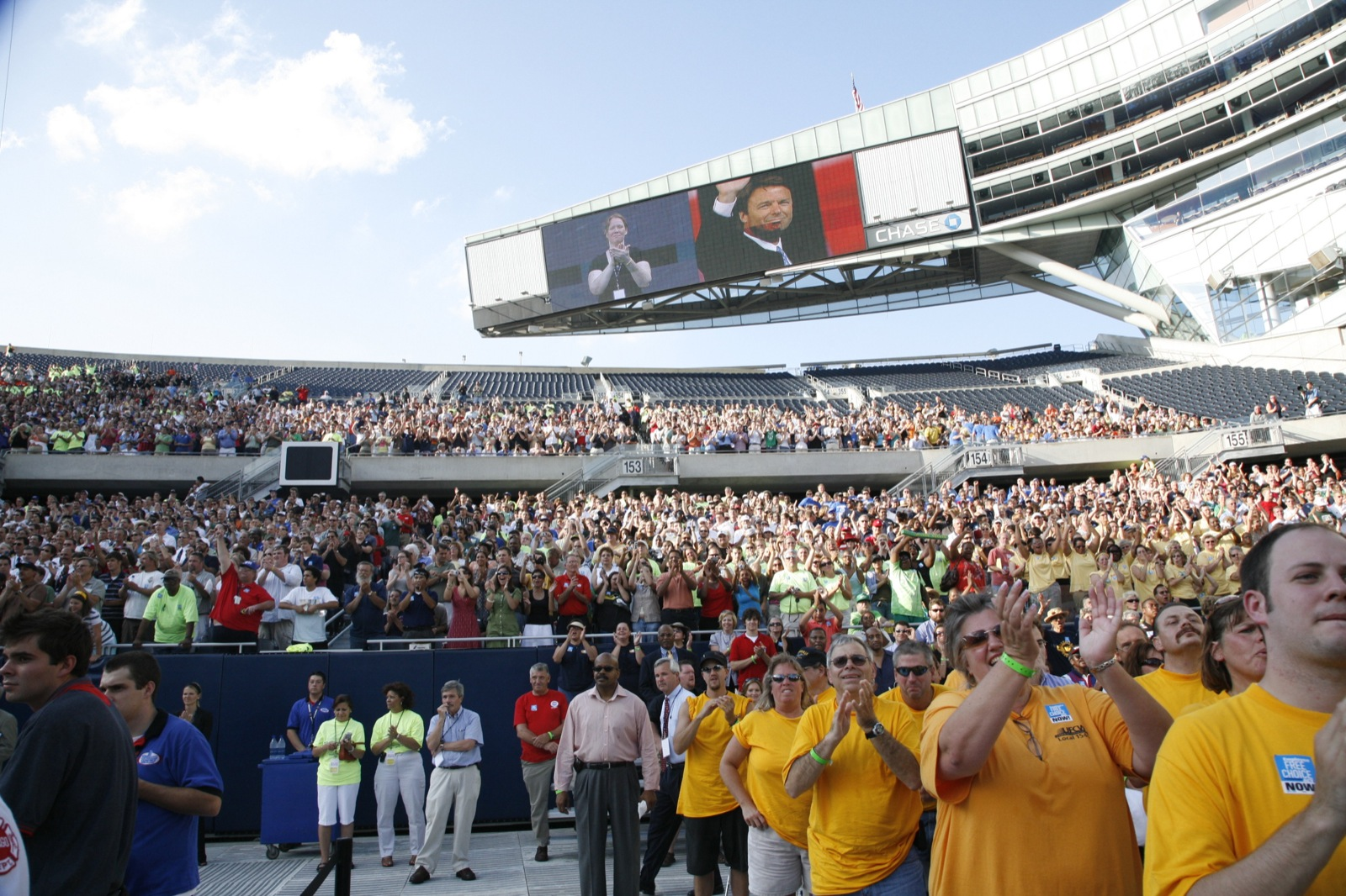 Photo by Rachel Feierman